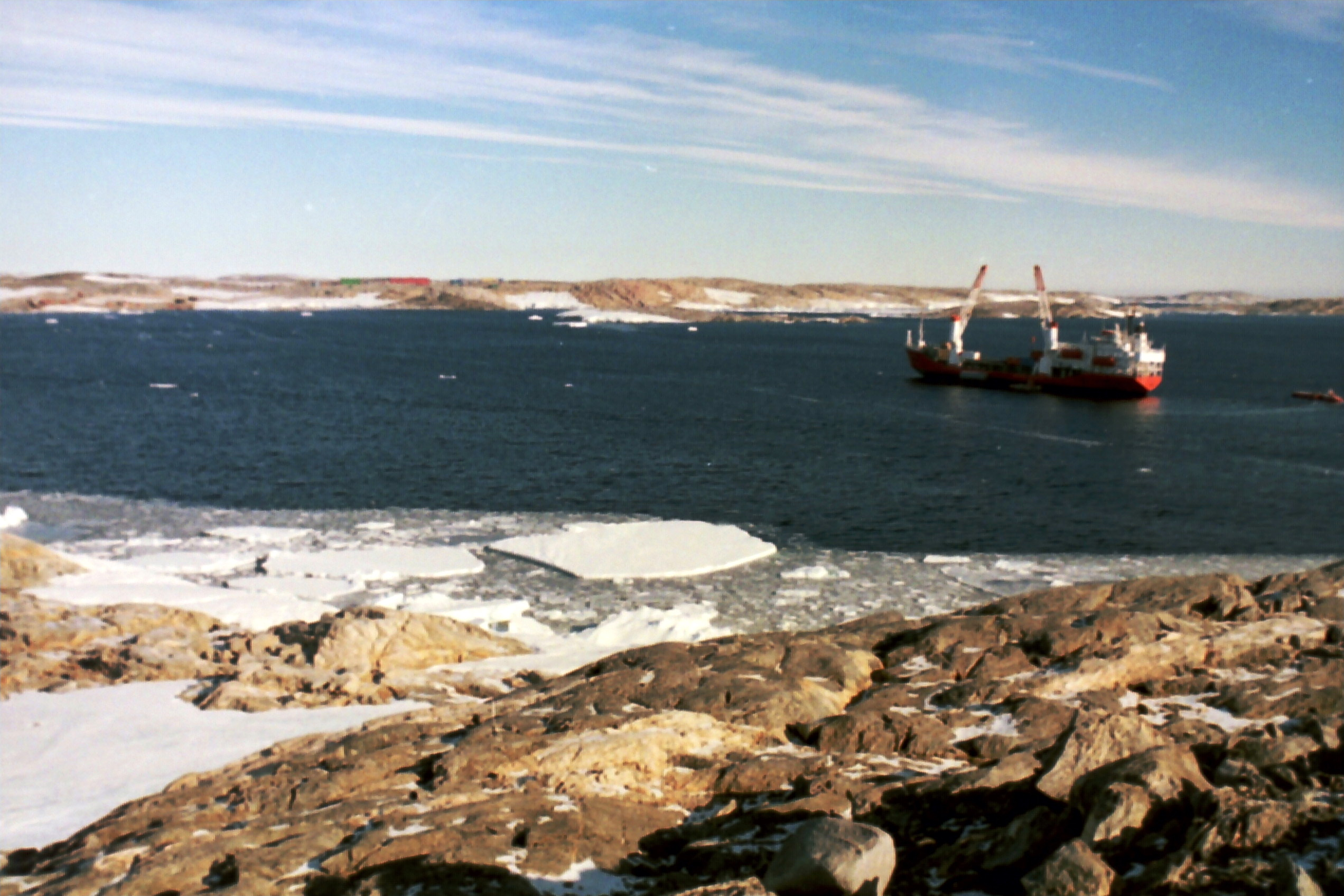 Photograph of the Icebird taken from near Wilkes in Antarctica with Casey Base visible on the far horizon.